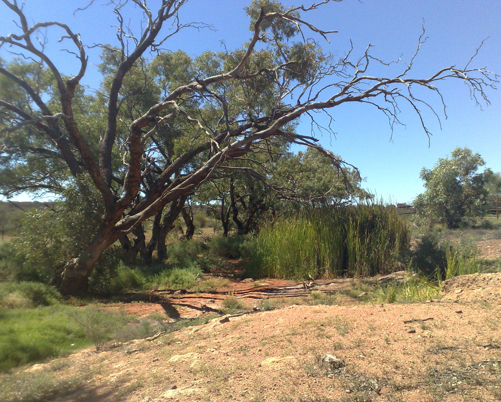 Wilbia soak is an important site. It had been severely damaged by camels who drank all the water, trampled and ate the plants and destroyed the soil surface. Today the area is restored by Angas Downs Rangers who erected a camel proof fence. Today only native animals and birds can come to the soak to drink.